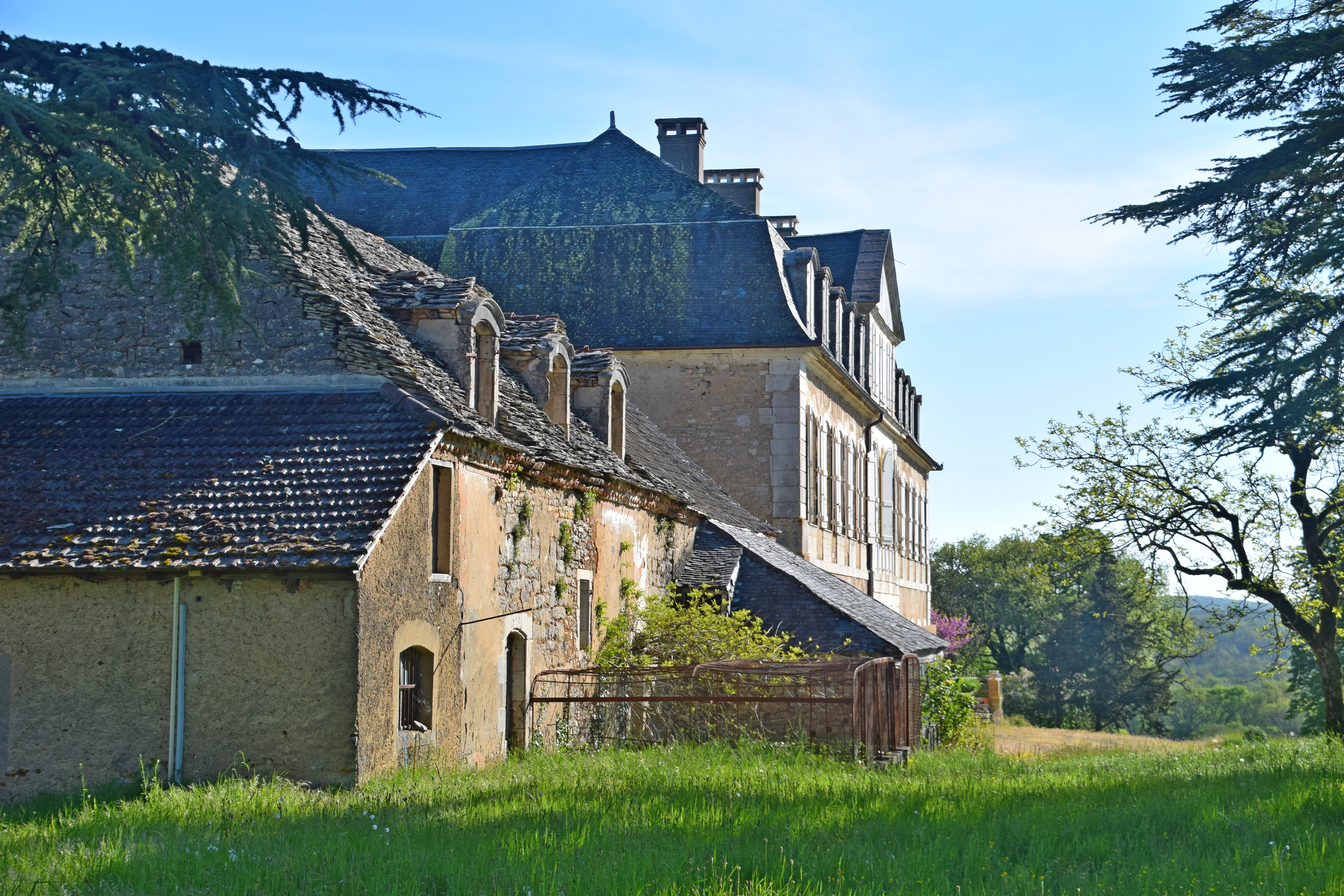 Château de la Pannonie, Couzou, Lot, France